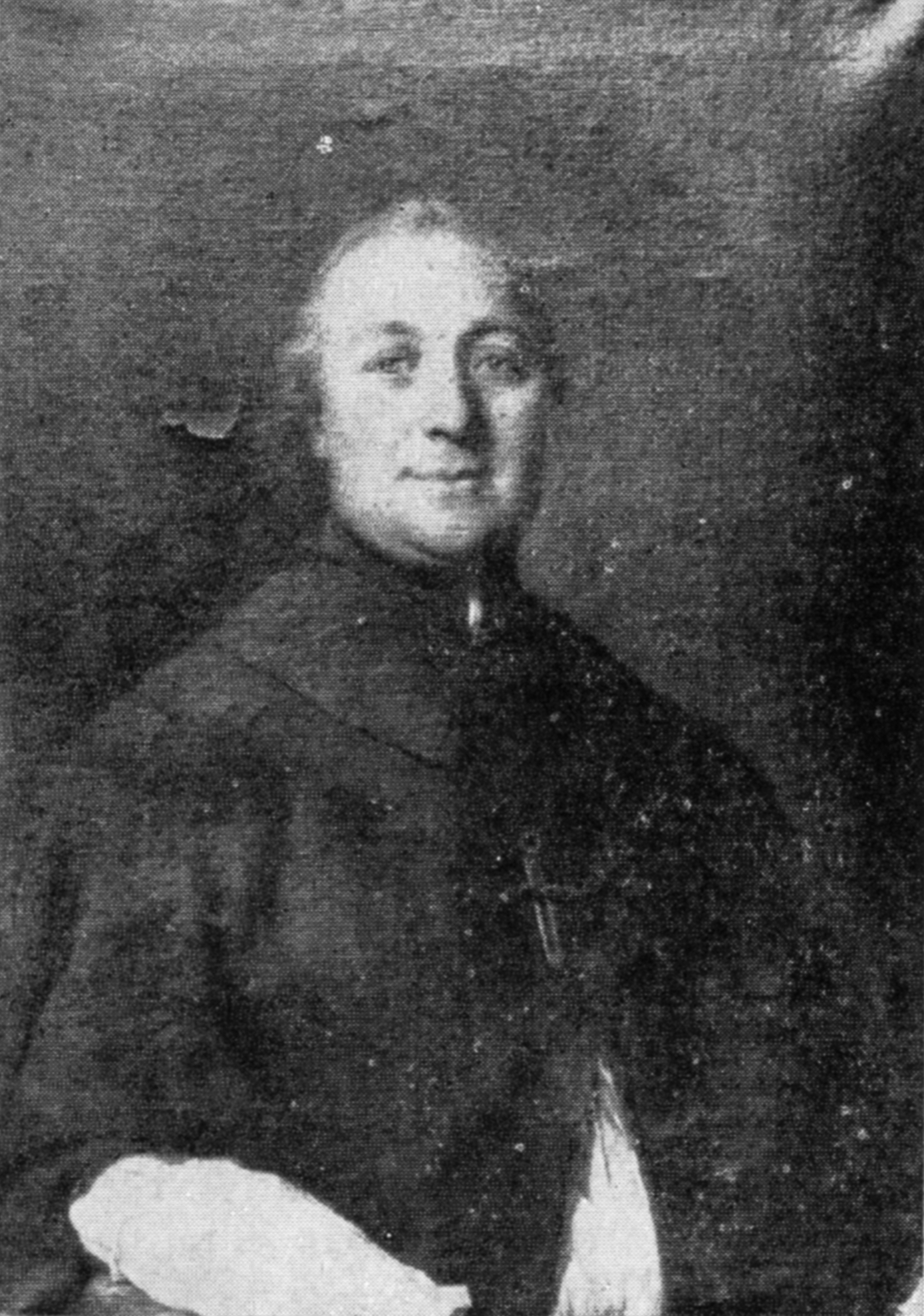 Portrait of Antoine Chautan de Vercly (1738-1823), last abbot of Morimond.